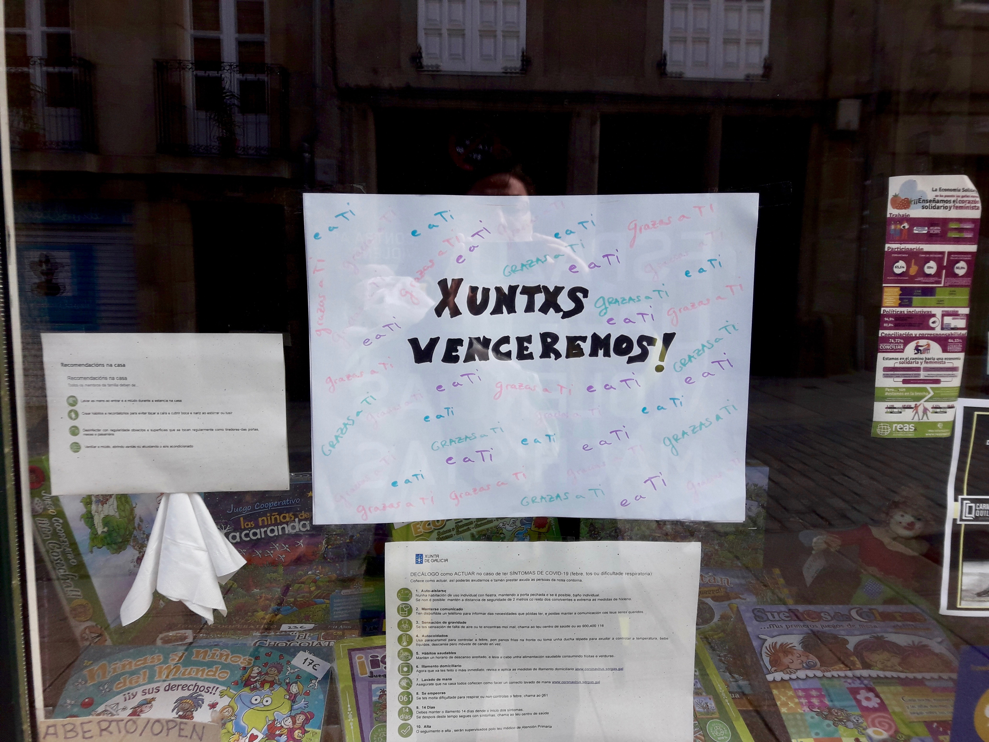 Compostela